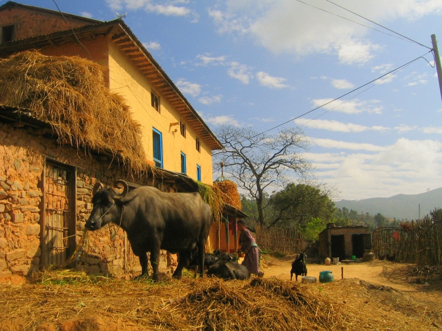 A house and some cattle in Nagarkot, Nepal